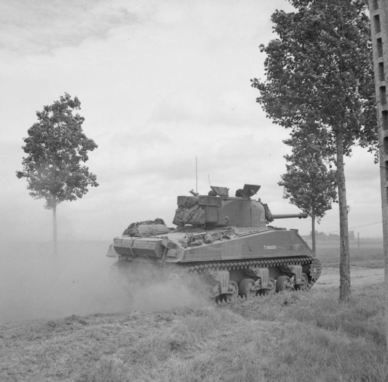 The British Army in the Normandy Campaign 1944 Sherman tank of 24th Lancers, 8th Armoured Brigade, near St Leger, 11 June 1944.